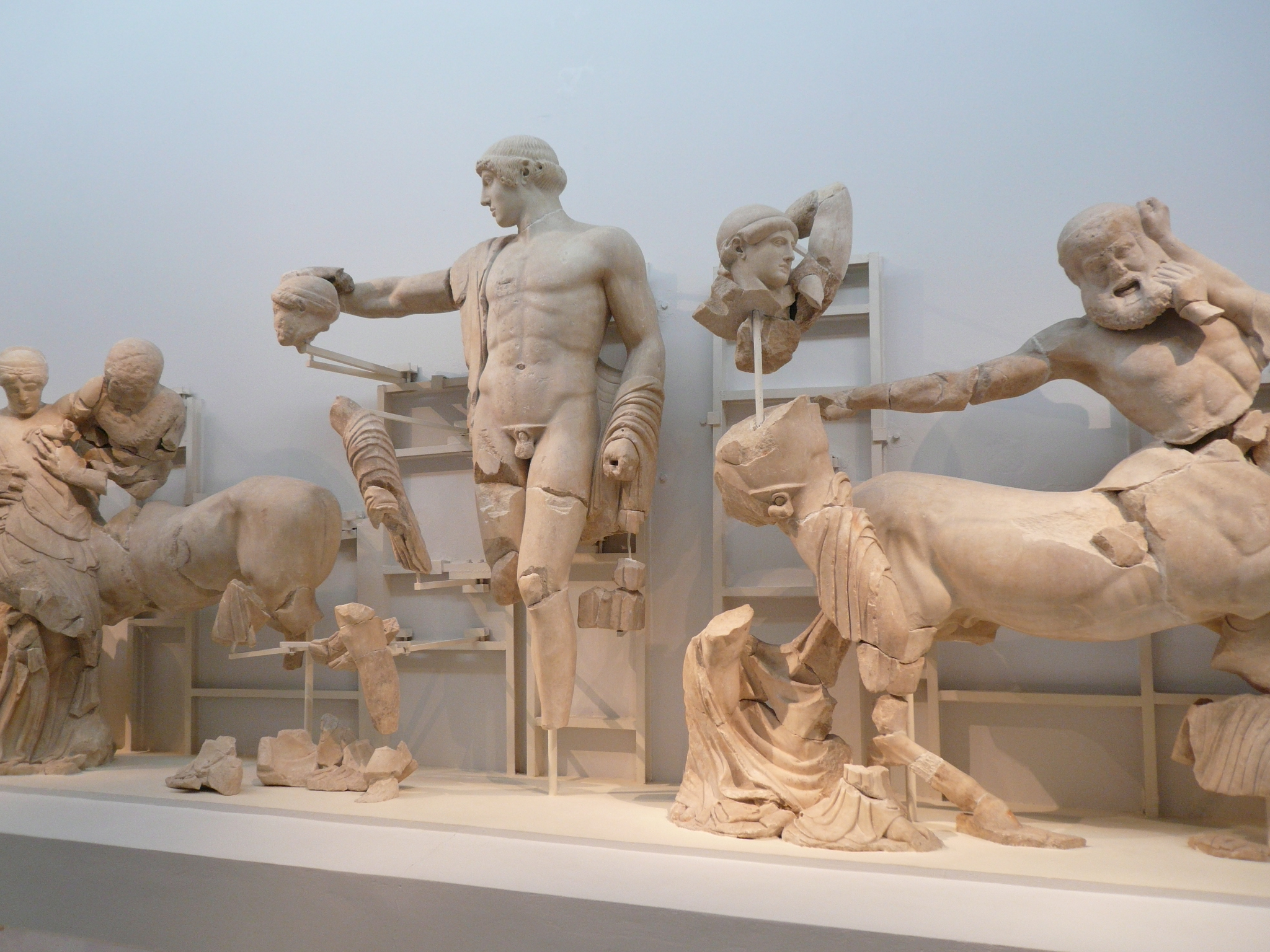 Archaeological Site of Olympia (Greece)